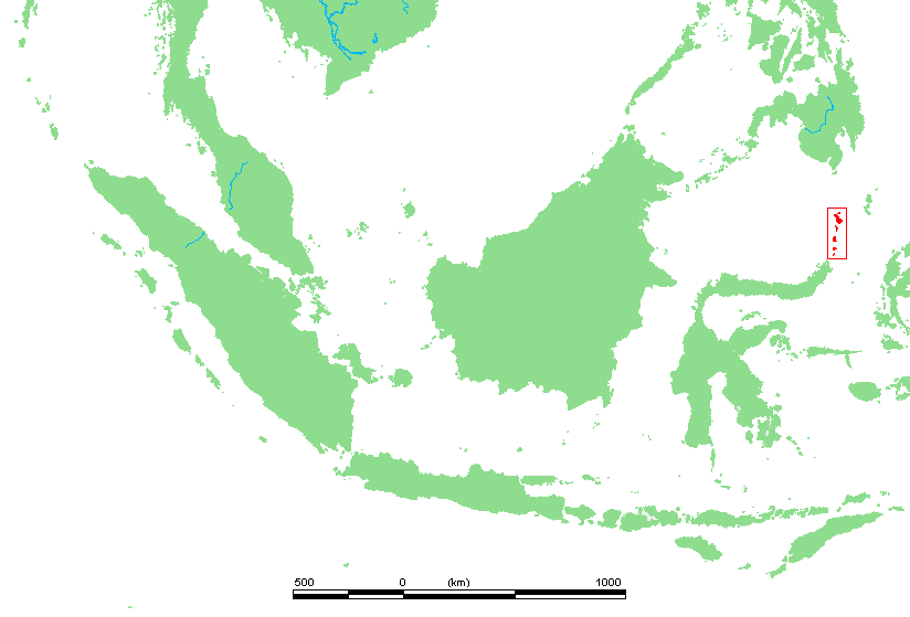 Location of Sangir Islands, Indonesia